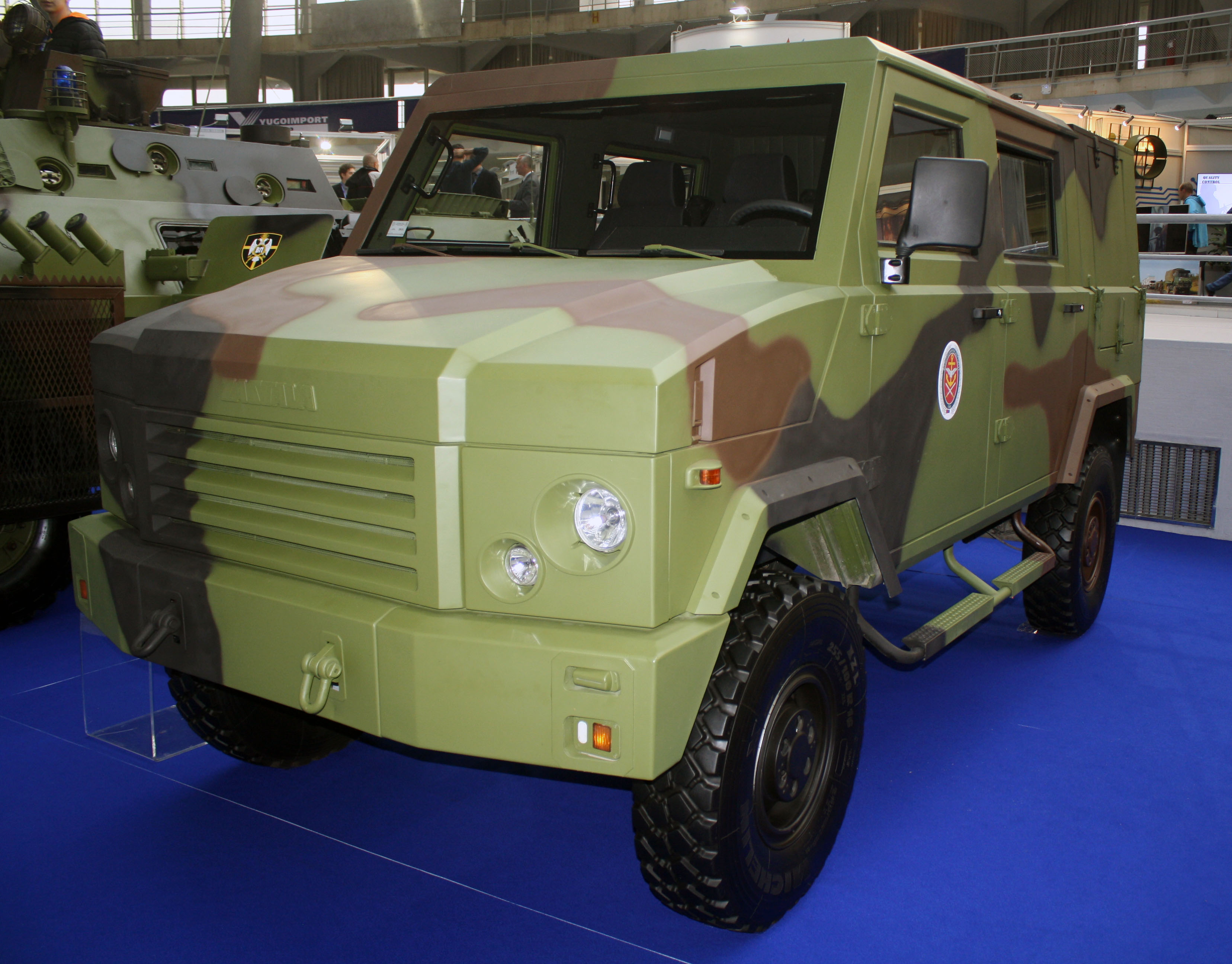 Zastava NTV all-terrain vehicle on display at "Partner 2015" military fair.